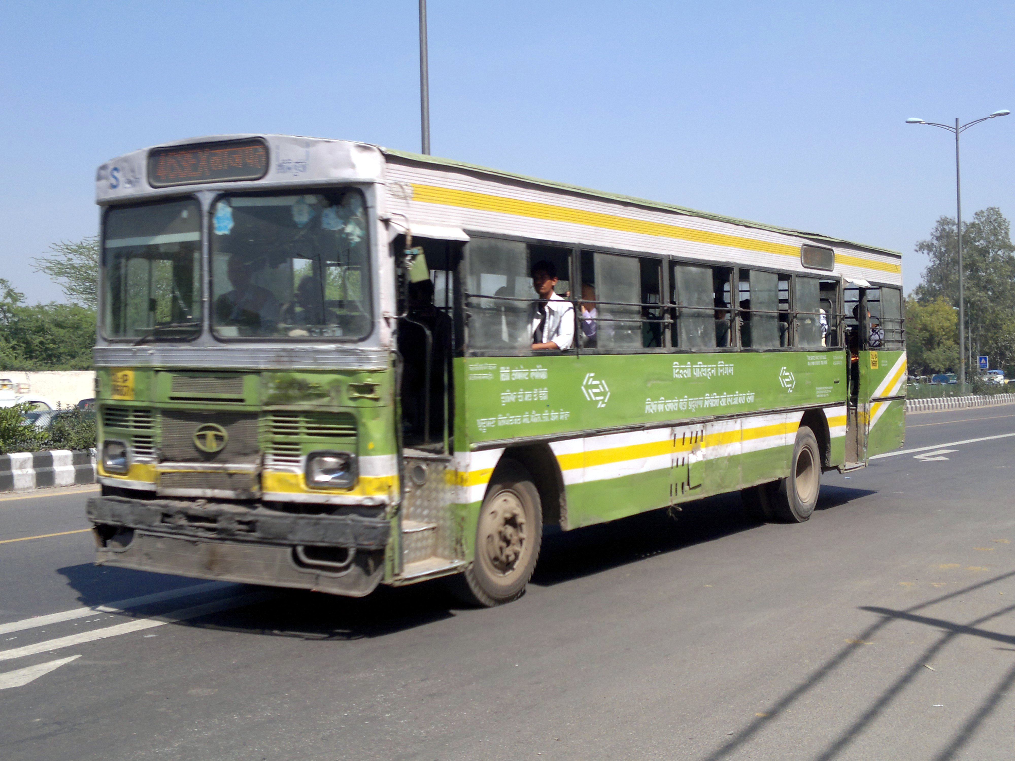 DTC was incorporated in May 1948 by the Indian government for local bus services when they found out the incumbent service provider Gawalior and Northern India Transport Company Ltd. was inadequate in serving the purpose. It was then named "Delhi Transport Service". It was again constituted as "Delhi Road Transport Authority" under the Road Transport Corporation Act, 1950. This Authority became undertaking of Municipal Corporation of Delhi by an Act of Parliament in April, 1958. In 1971, on a recommendation from the Indian government took over the assets and liabilities from the erstwhile Delhi Transport Undertaking (DTU) operated by the Municipal Corporation of Delhi until the 2nd November 1971. Delhi Transport Corporation which was under administrative control of the Indian government was transferred to the Government of National Capital Territory, Delhi.